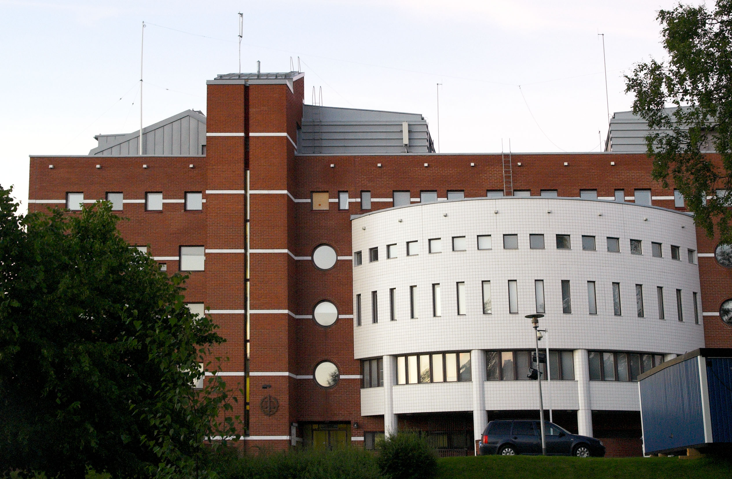 Joint Courthouse and Police Building in Kuopio, Finland